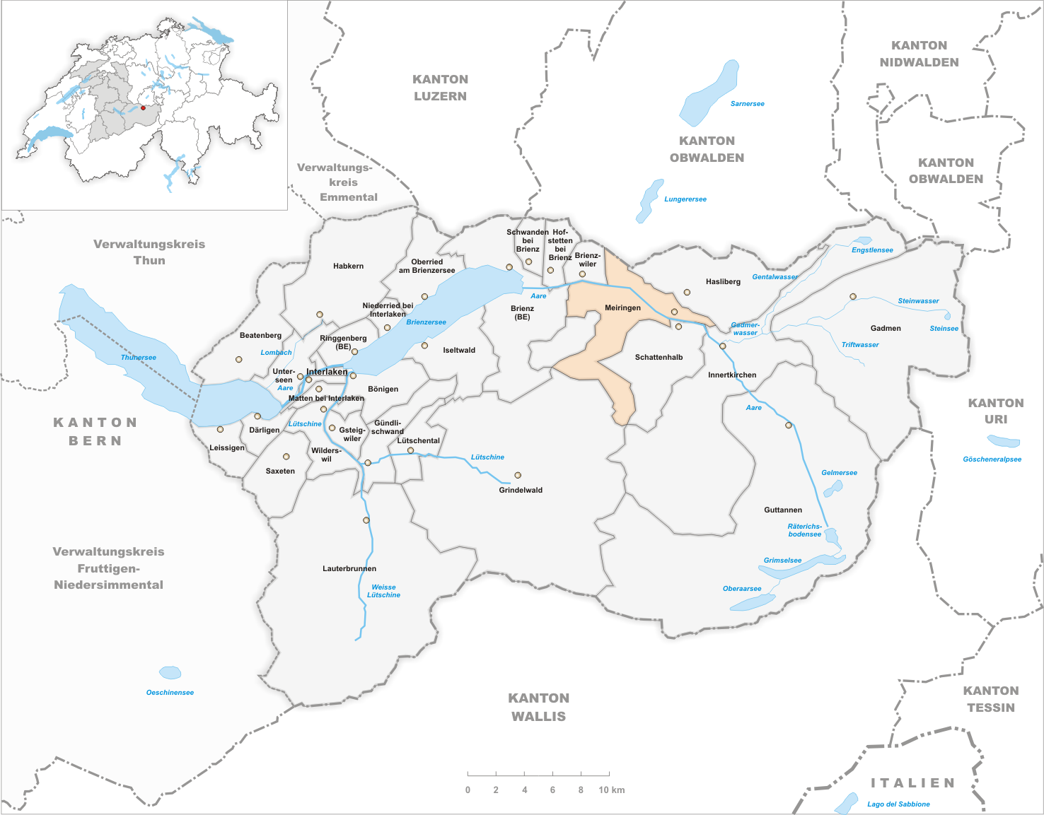 Municipality Meiringen